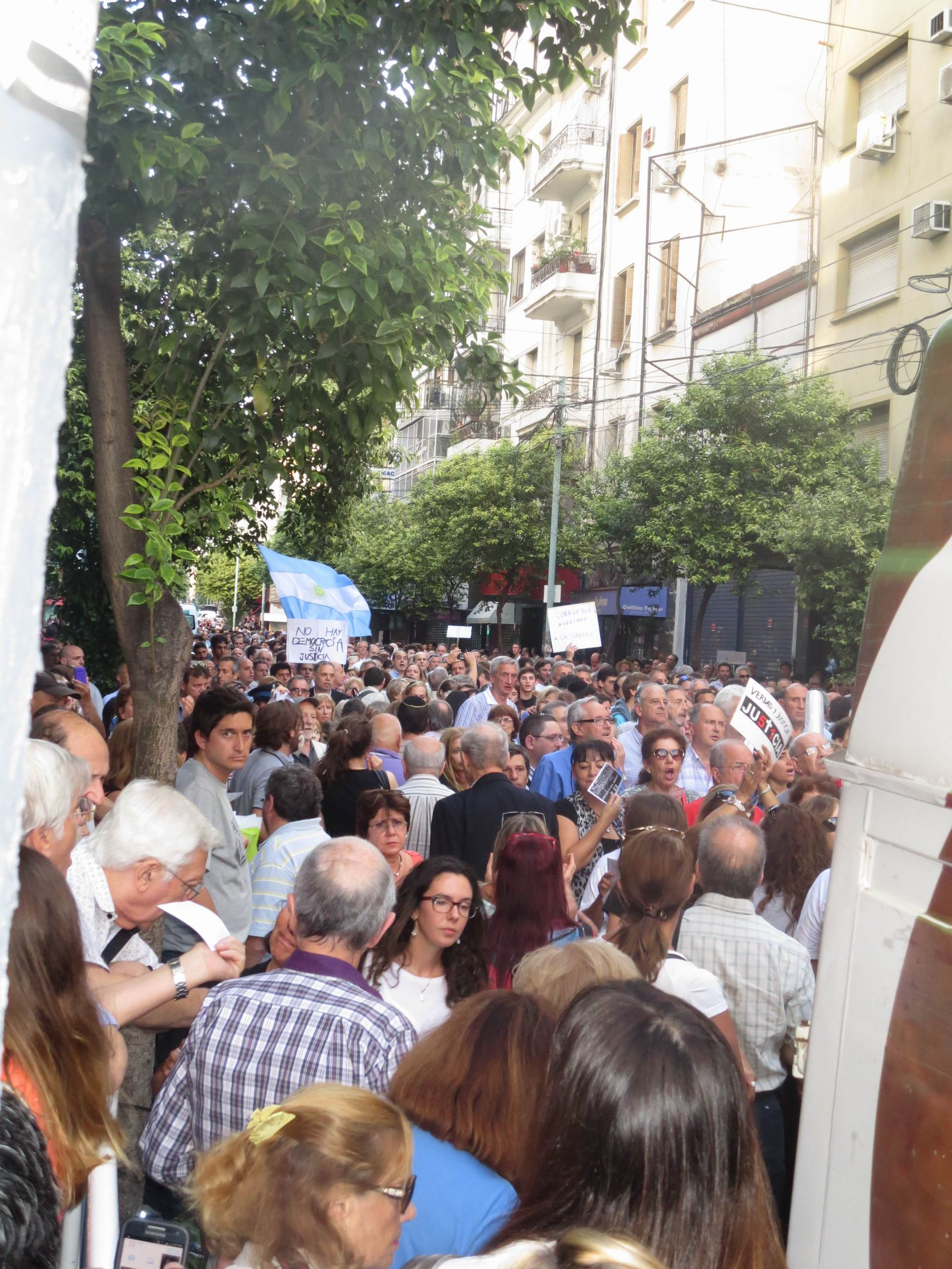 Argentines have been taking to the streets in 2015 to demand justice for the dead prosecutor Alberto Nisman